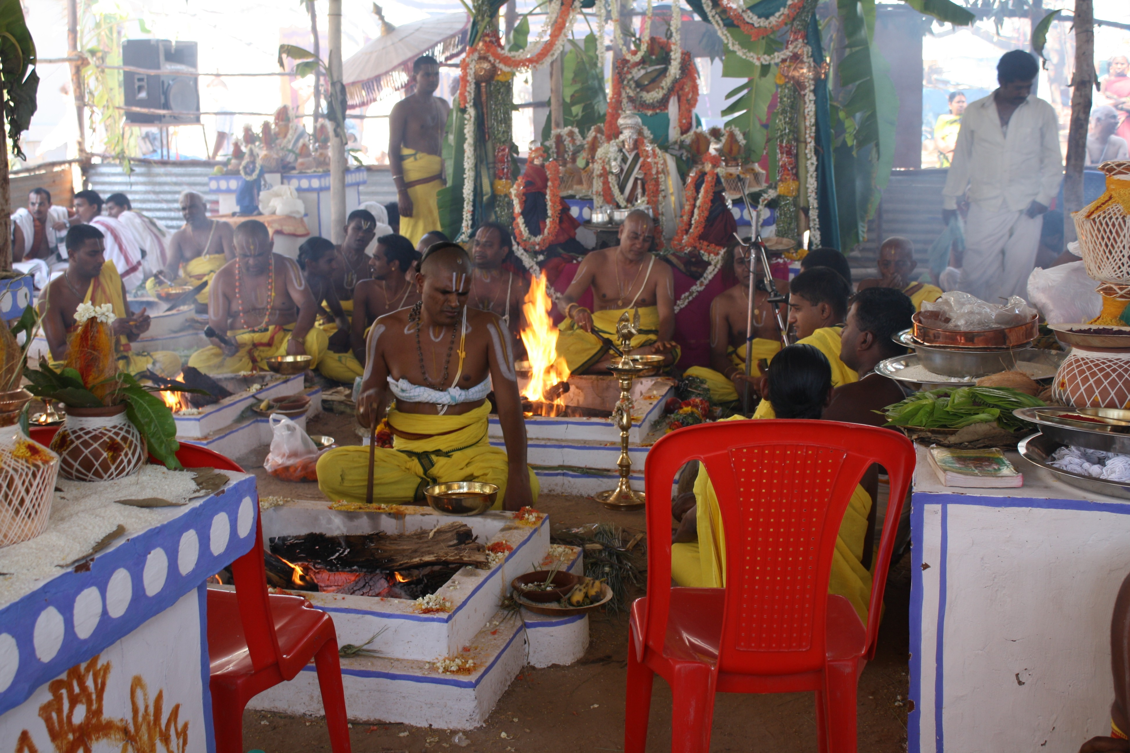 Priests performing Yagnya as part of Kumbhaabhishekam at Gunjanarasimhaswamy Temple,T.Narasipur.jpg